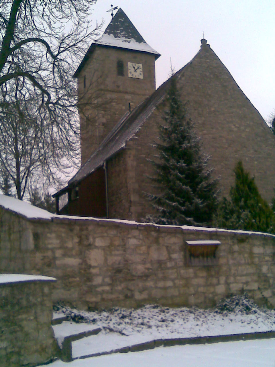 Abtlöbnitz church